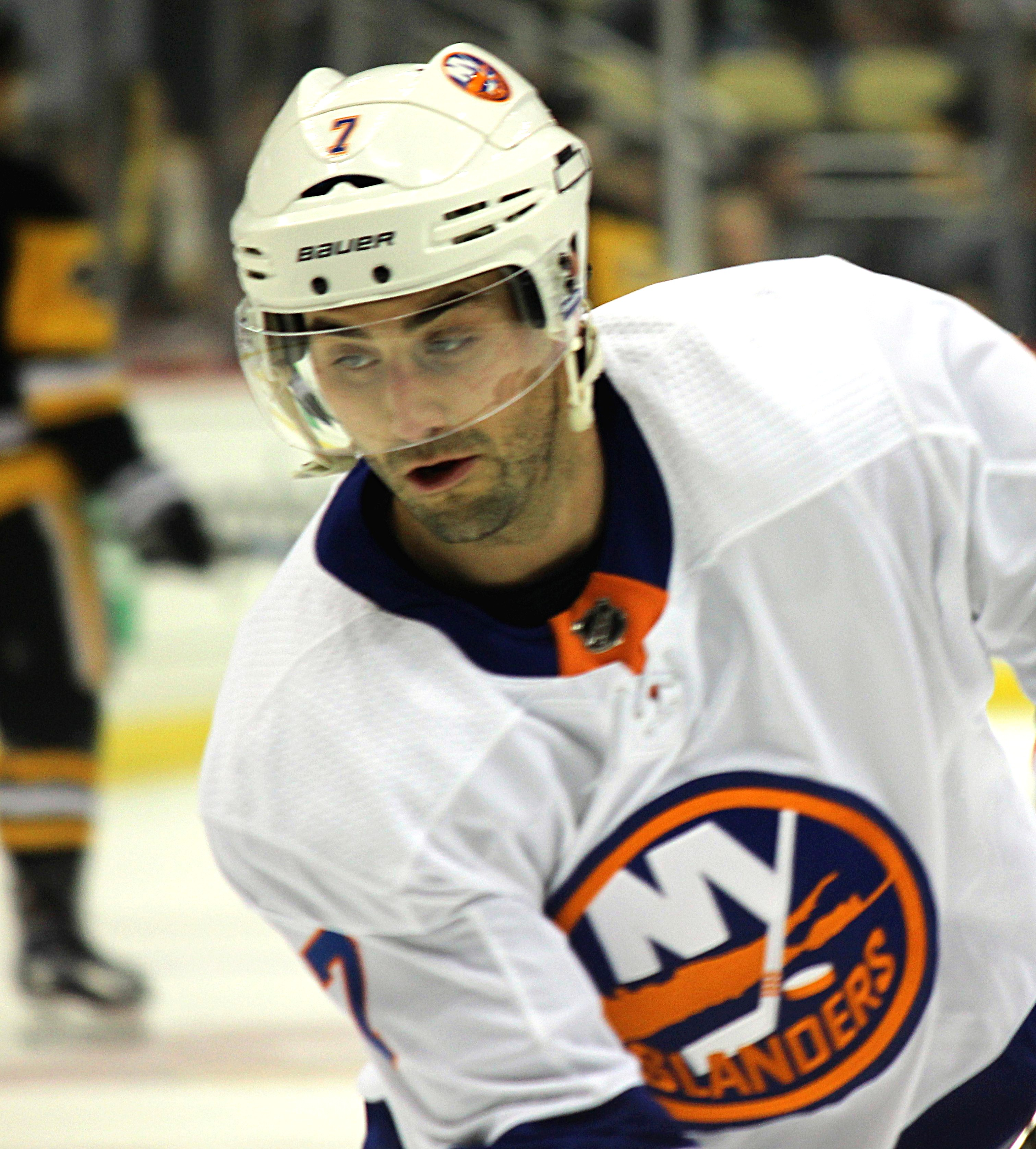 New Yorks Islanders forward Jordan Eberle during a game against the Pittsburgh Penguins at PPG Paints Arena in Pittsburgh, PA. Saturday, March 3, 2018.